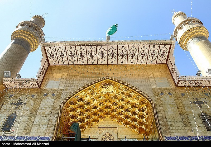 Imam Ali Shrine